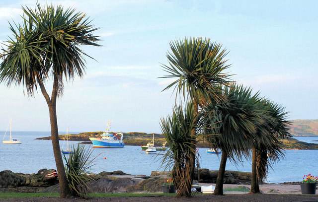 Millport Inner Bay, Great Cumbrae, Scotland A view across the Bay towards the moorings. with cabbage trees (Cordyline australis) [nb - not palms] in the foreground, and the Eileans in the background.